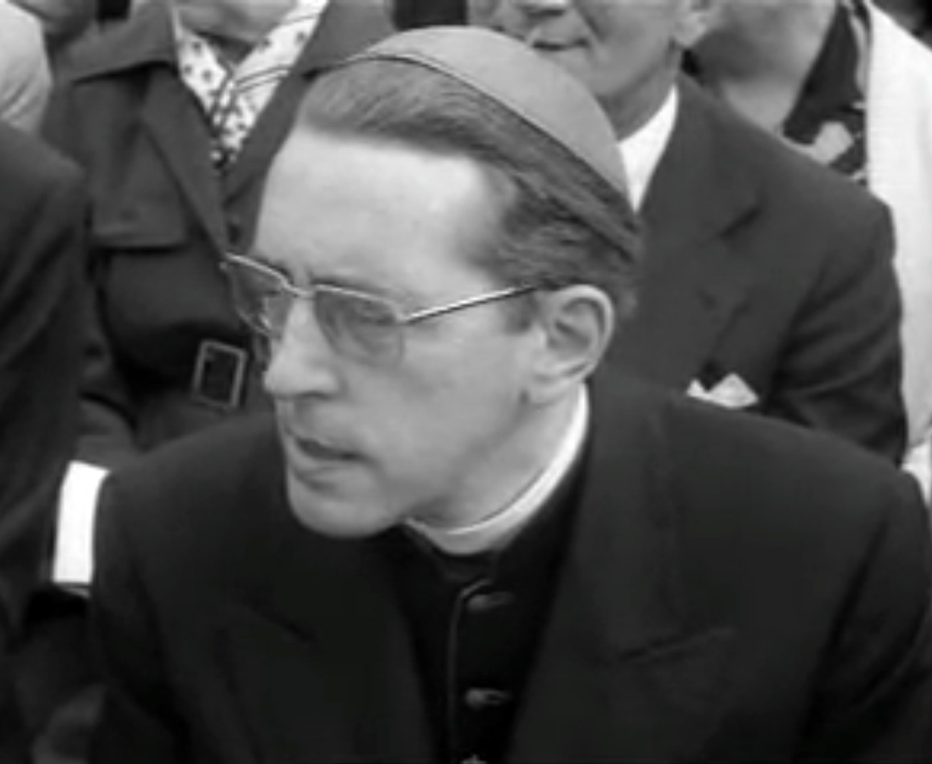 Bishop Joannes Gijsen watching the final procession of the Heiligdomsvaart 1976 at Vrijthof square in Maastricht, Netherlands. The reliquary procession on Sunday 5 September 1976 was the closing ceremony of a 10-day religious festival that dates back to the Middle Ages and is celebrated in Maastricht every seven years. This is a still from a film item for the Dutch Polygoonjournaal uploaded to Wikimedia Commons by Het Nederlands instituut voor Beeld en Geluid on 15 September 2014.